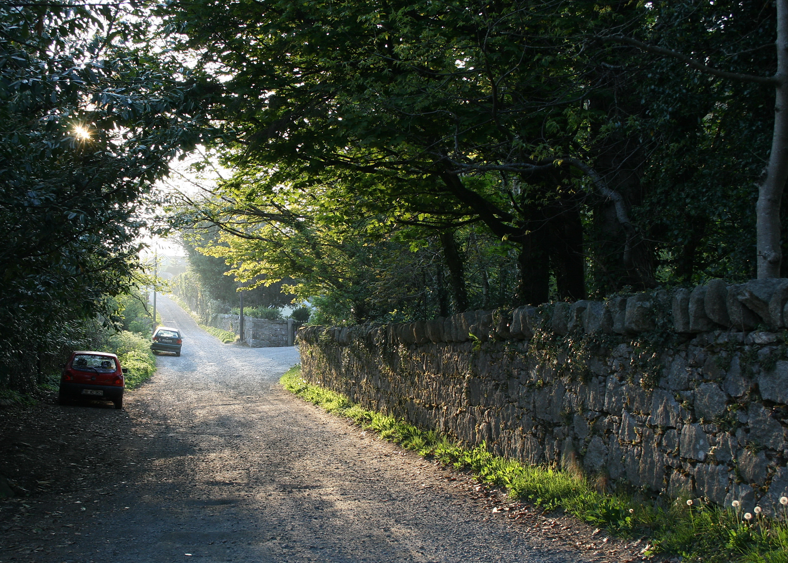 Annamoe, County Wicklow, near to Annamoe, Ballinaconbeg, Raheen, Drummin and Oldbridge, Wicklow, Ireland. Looking into the west.